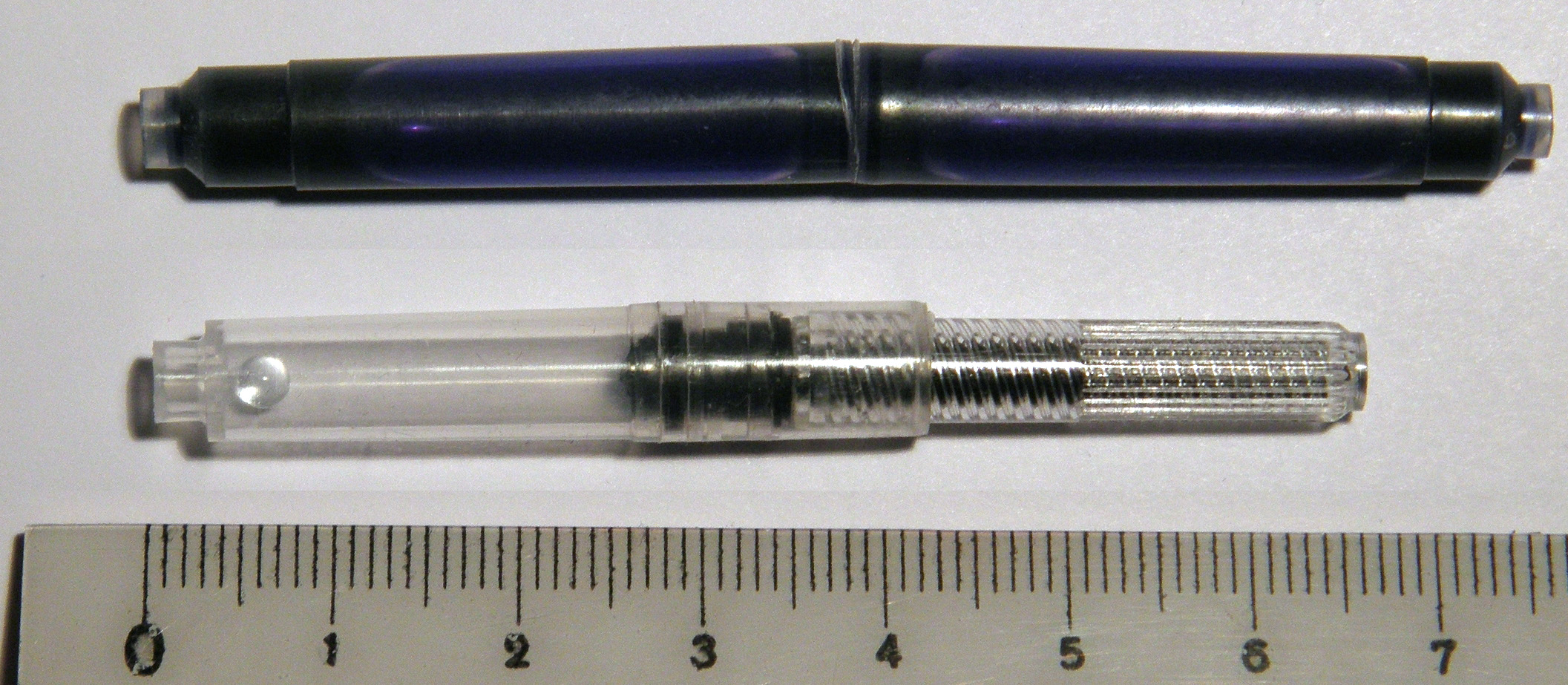 inkcontainer with screw for refill